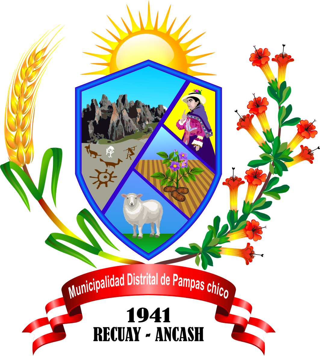 Coat of Arms of the Pampas Chico District - Recuay Province - Ancash Region